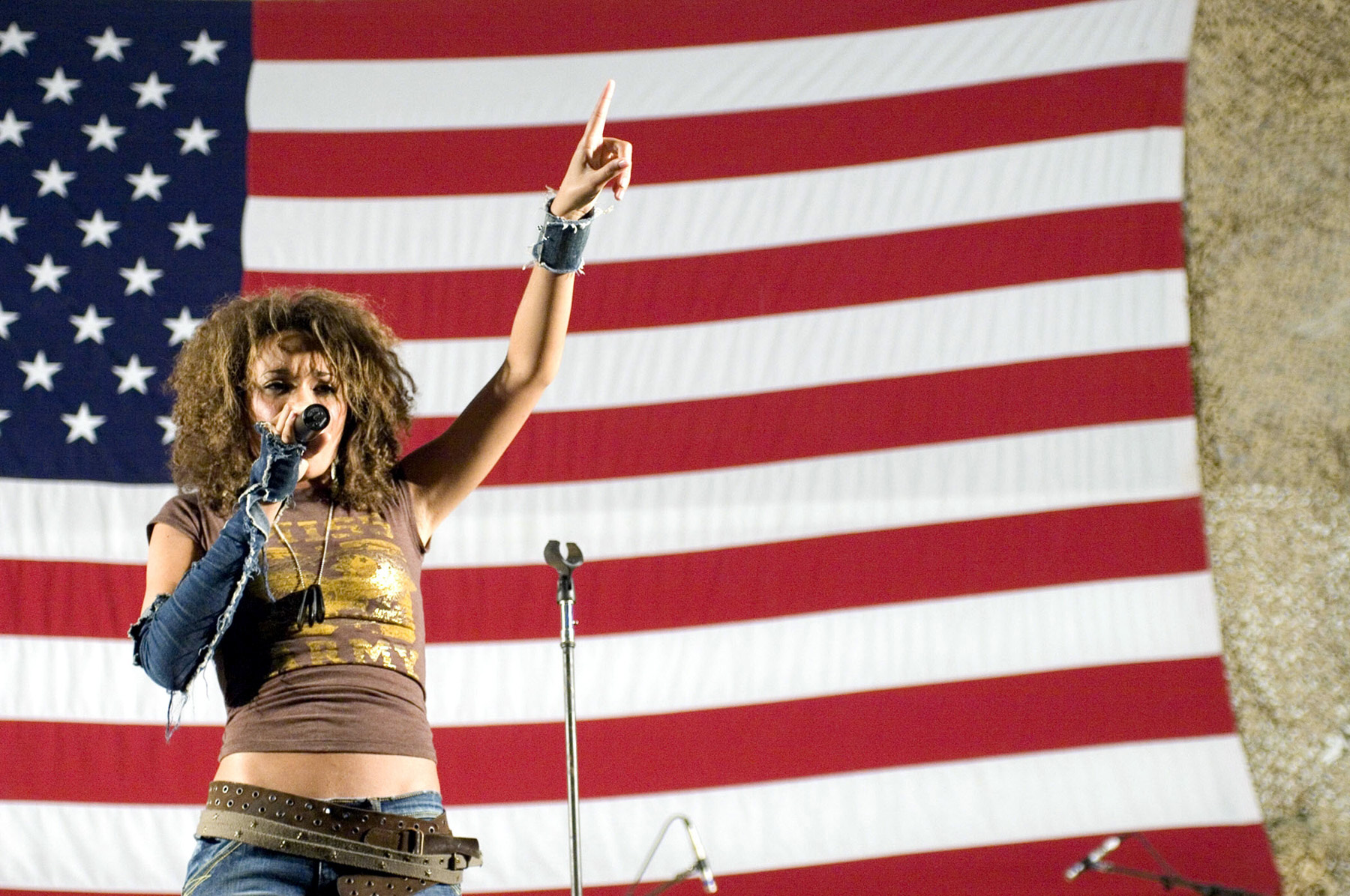 Original description: Rachael Washington of the Christian R&B group SoulJahz entertains Soldiers, Sailors, Airmen and Marines during the Sergeant Major of the Army Hope and Freedom Tour 2005 at Bagram Airfield, Afghanistan Dec. 17. The USO tour features Al Franken, Mark Wills, Craig Morgan, Dallas Cowboys Cheerleaders, Keni Thomas, and SoulJahz.